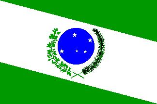 Paraná Flag, 1990-2002